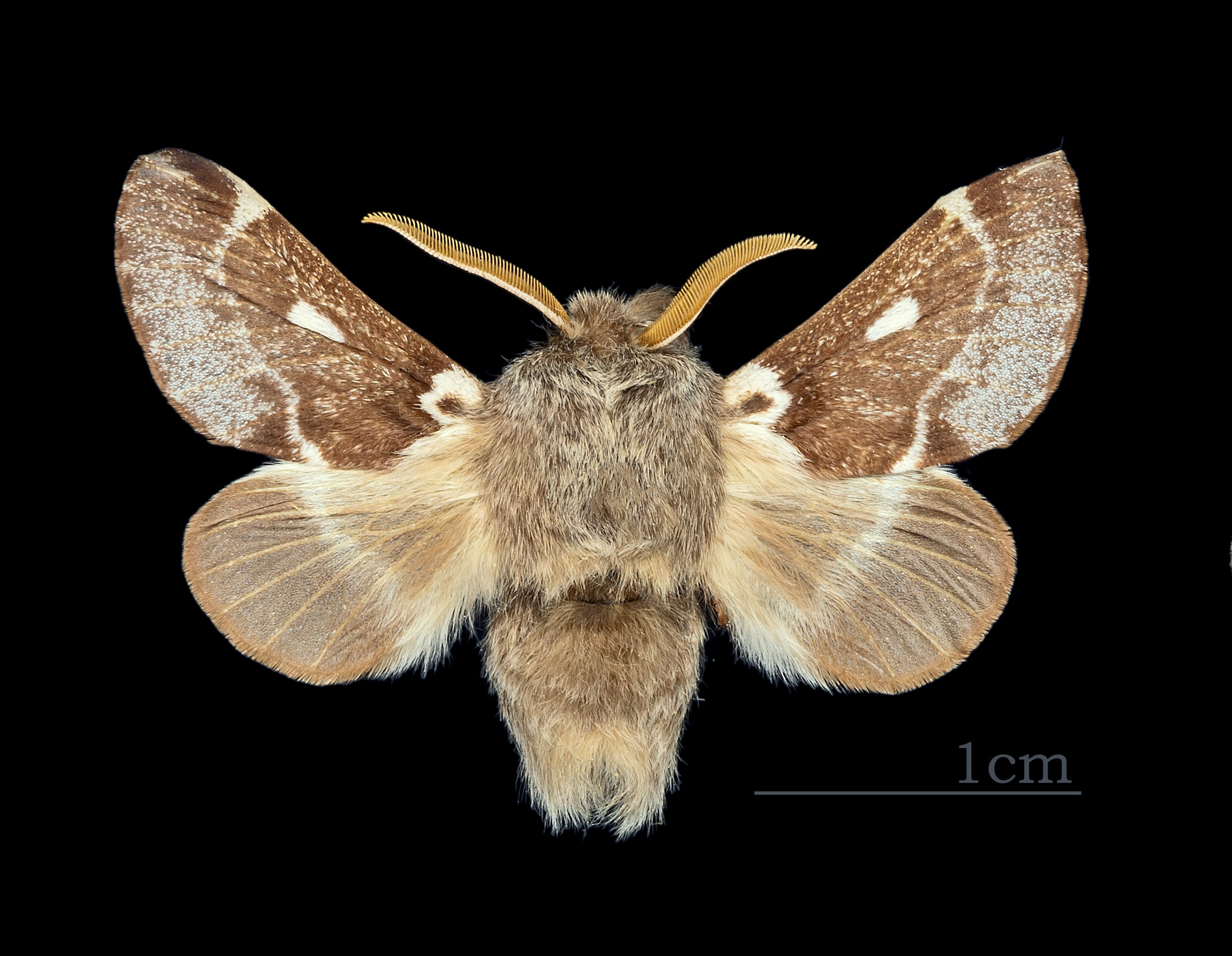 Small Eggar - Dorsal side